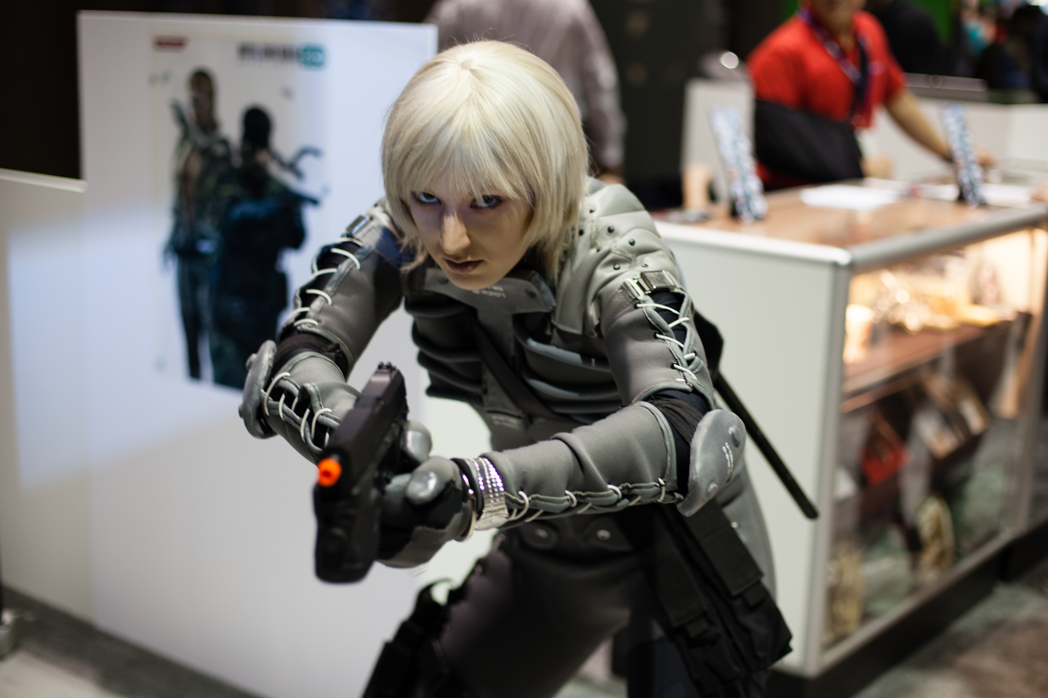 Taken on August 31, 2012 Canon EOS 5D Mark II